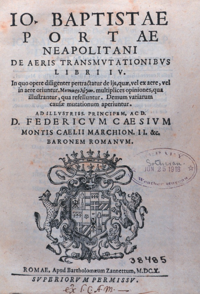 Title page of "De aeris transmutationibus libri IV...." by Giambattista della Porta, 1535?-1615. This book was published in 1614. Library call number QC859 .P67 1614.